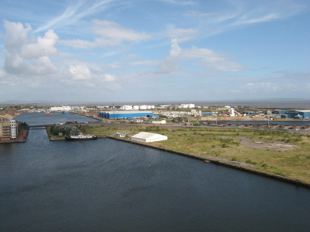 Roath Basin and Roath Dock; Cardiff Docks Overview of Cardiff Docks and oil terminal. Roath Basin (nearest), Roath Dock (above); channel to Queen Alexandra Dock (centre right). Bristol Channel beyond.